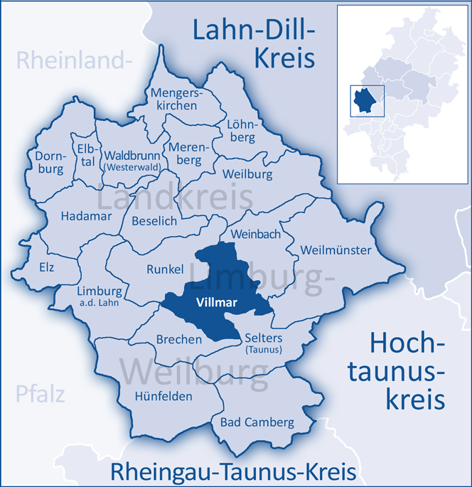 The map shows a district in the area of Limburg-Weilburg